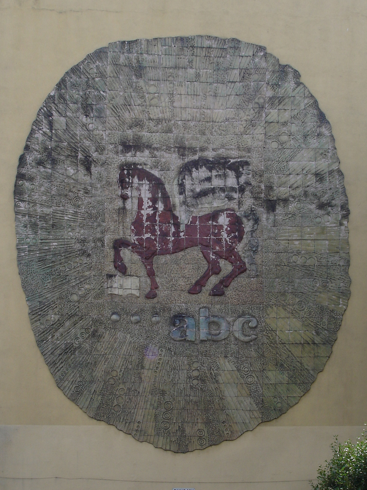 The ceramic tile mural on Multi-family residential wall by Henryk Goraj in Świętochłowice, Poland, Świerczewskiego street.